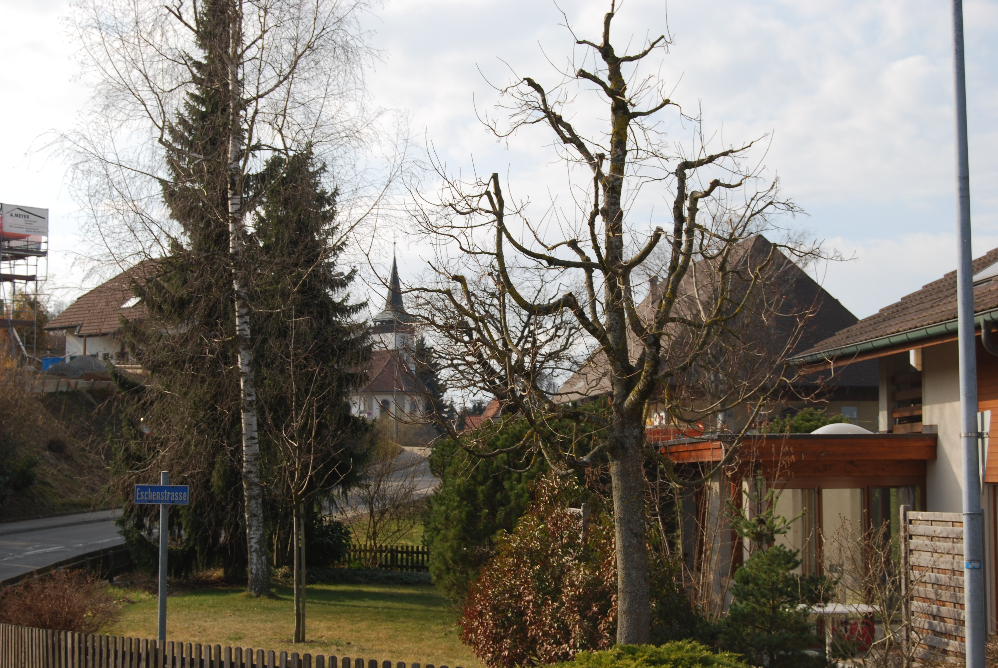 Thunstetten, canton of Bern, SwitzerlandEsperanto: Thunstetten, Kantono Berno, Svislando